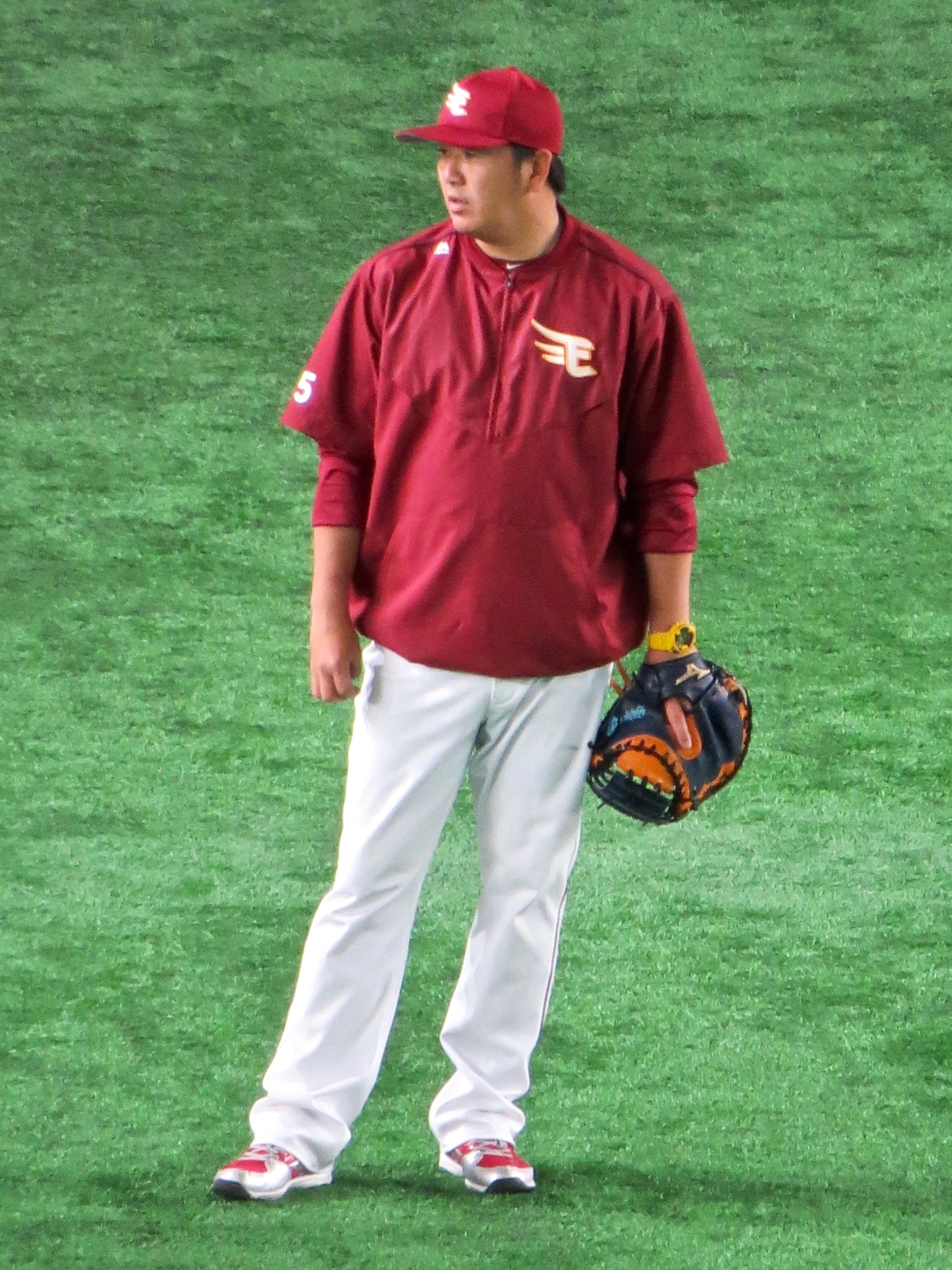 Shinichiro Koyama, coach of the Tohoku Rakuten Golden Eagles, at Tokyo Dome